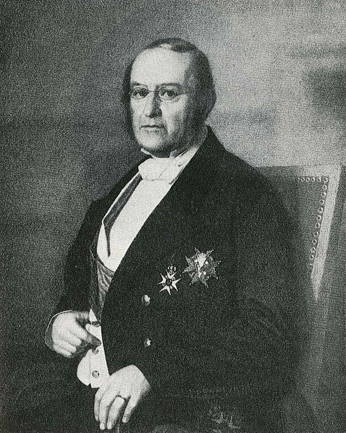 Wilhelm Fredrik Tersmeden (1802-1879), Swedish baron, owner of Ramnäs and liberal member of parliament.